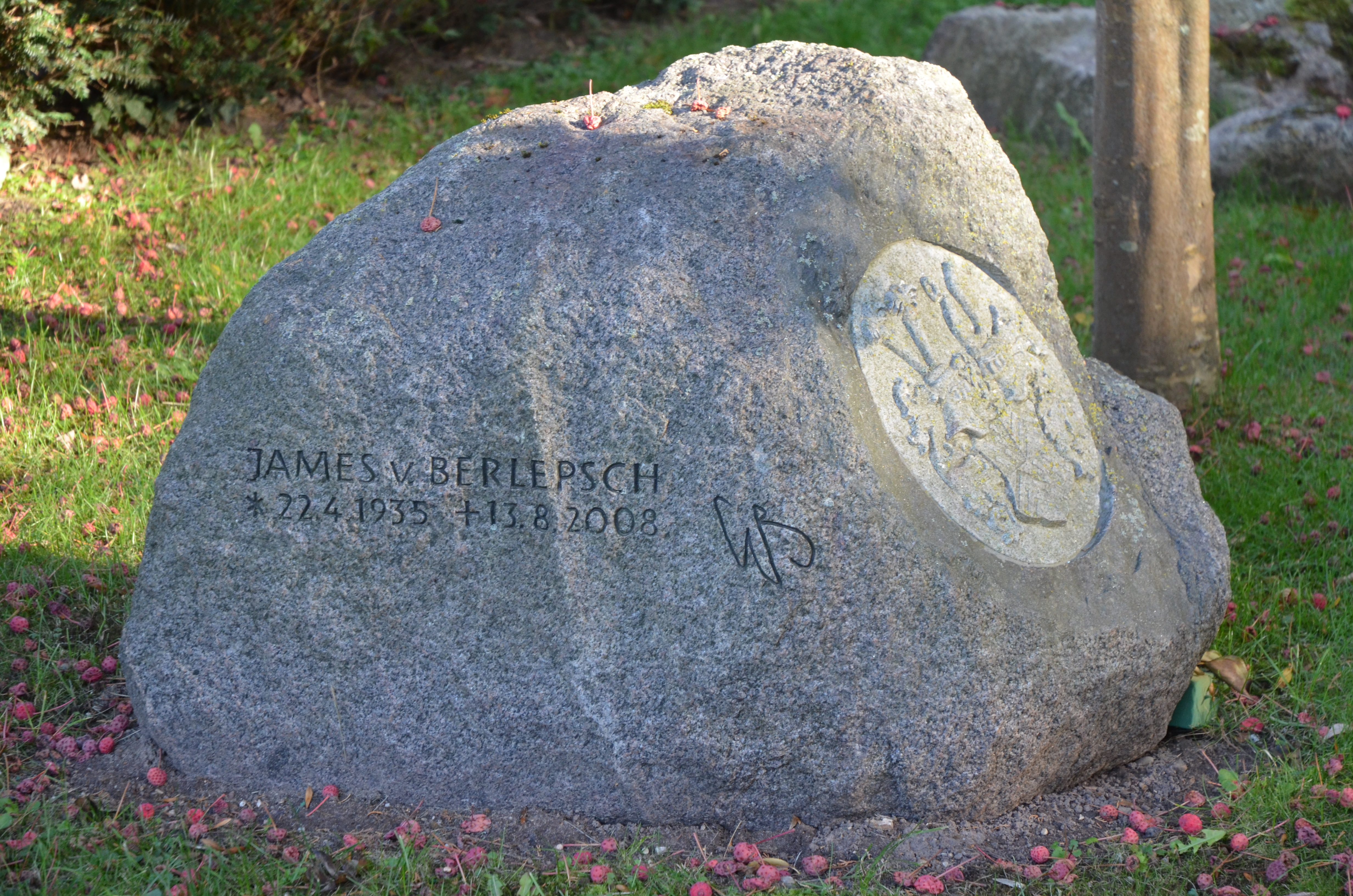 Findling aus hellem Basalt umgearbeitet zum Grabstein auf dem Michaelisfriedhof in Hannover, Stadtteil Ricklingen, aufgestellt für den Theater-Schauspieler und Gründer und Leiter des Neuen Theater in Hannover, James von Berlepsch (* 22. April 1935 in Herrera Entre Rios, Argentinien; † 13. August 2008 in Hannover) ...